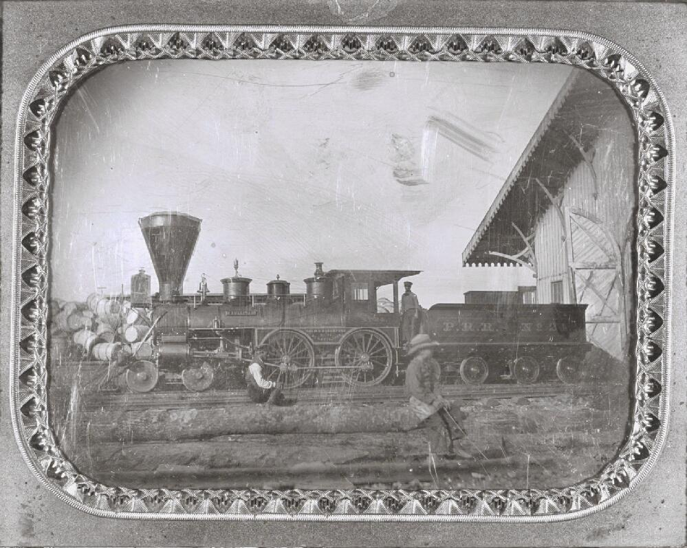 Pacific Railroad Freight Locomotive O'Sullivan. Daguerreotype by Thomas M. Easterly, 1855. Missouri History Museum Photograph and Prints collection. Easterly Daguerreotype Collection. n17148. The Pacific Railroad Freight Locomotive, O'Sullivan, at a station. A boy sits on a log in the foreground, one man sits on the tracks behind him, and a man stands on the locomotive's engine. The locomotive has a sign that reads "O'Sullivan" and the coal car behind it says "P.R.R. No. 24". Many barrels are piled up in the background. {"subject_uri":"http:\/\/collections.mohistory.org\/resource\/17072","local_id":"33195"}